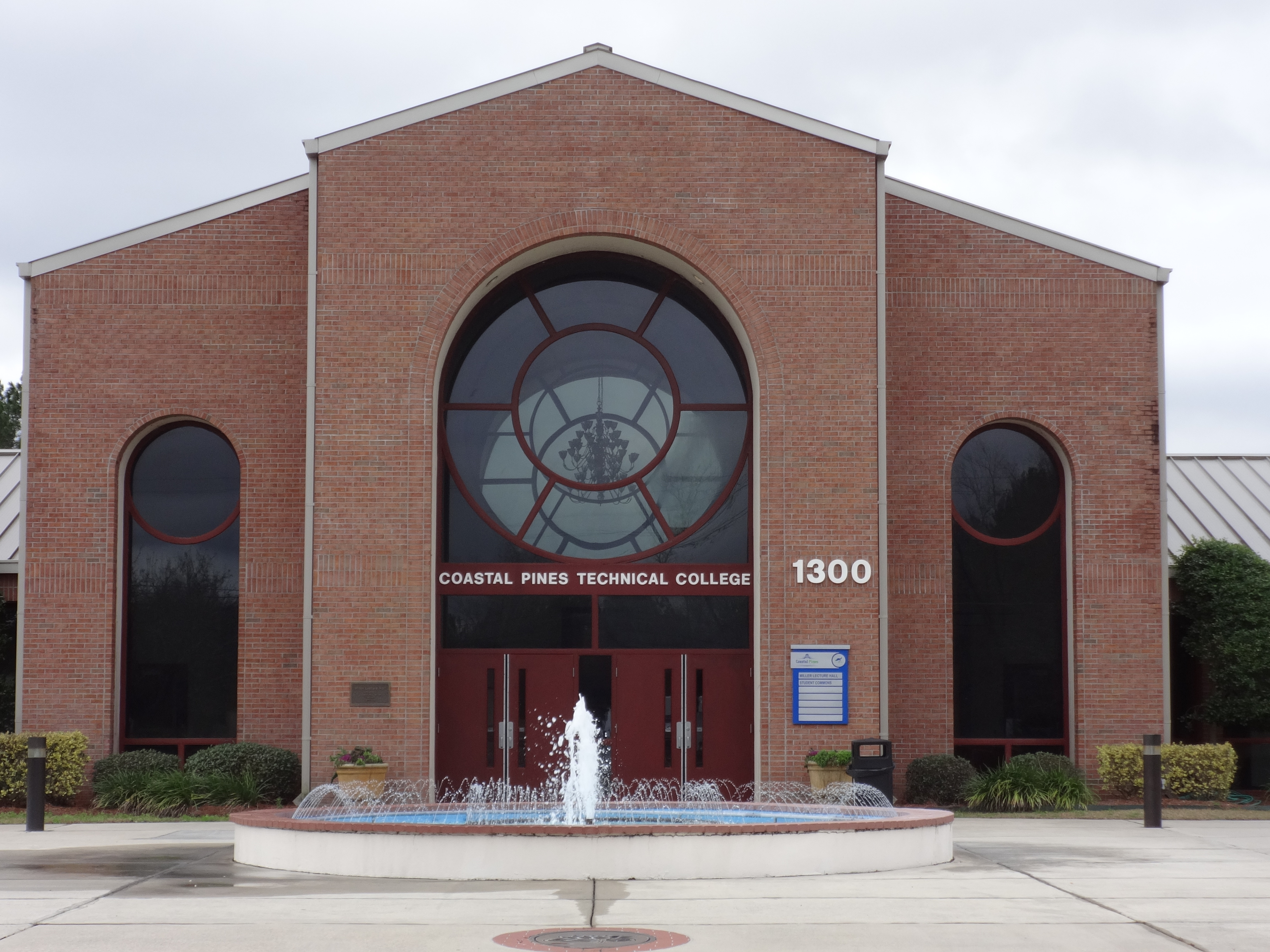 Coastal Pines Technical College, Waycross, Ware County, Georgia